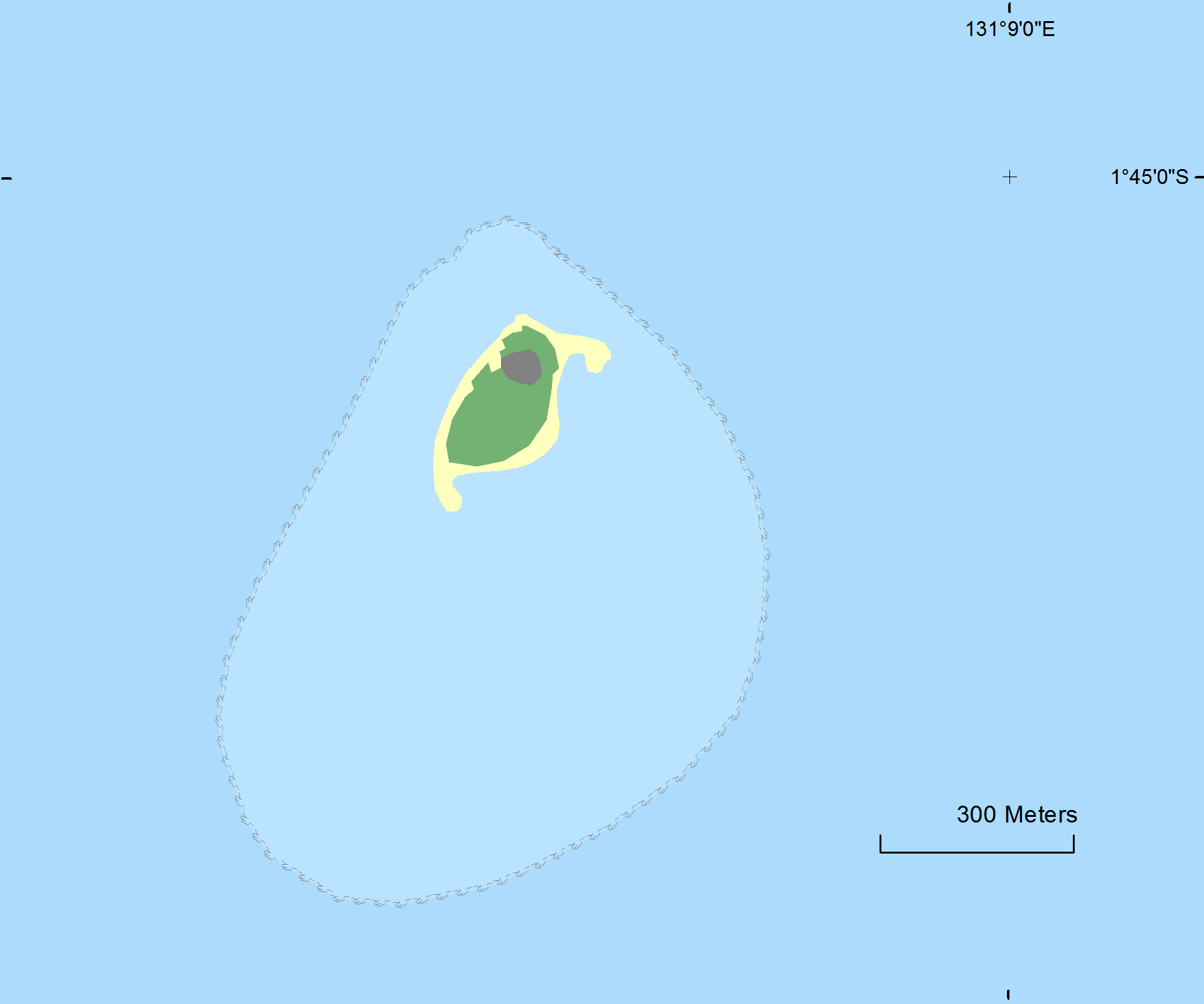 Gray: built-up area, green: forest, yellow: sand, light blue: shallow sea within the reef, darker blue: shallow sea outside the reef. Traced from satellite imagery. Equirectangular projection.